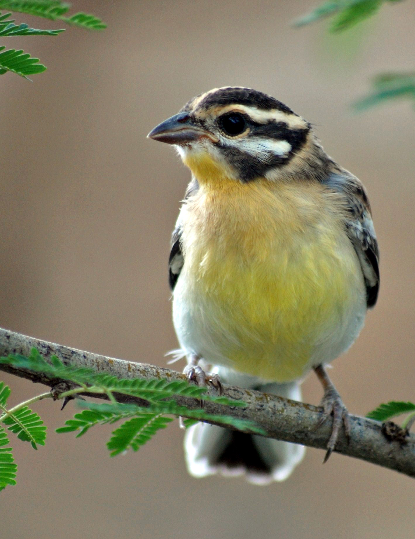 A juvenile Golden-breasted Bunting in Opuwo, Namibia.